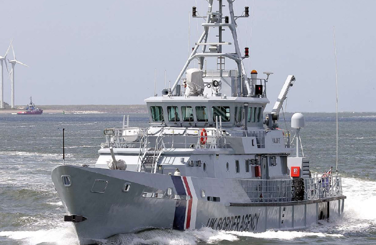 Library picture of HMC Valiant.